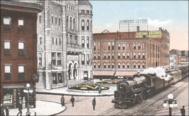 Empire State Express c.1900 in downtown Syracuse, New York in front of City Hall with Edward Joy Co. in background. - Caption on the front of the card reads: “Empire State Express passing through Syracuse, N. Y.” The famous Empire State Express of the New York Central Railroad is passing west on Washington Street past Syracuse’s City Hall, with its sign: “Syracuse Bids You Welcome.”